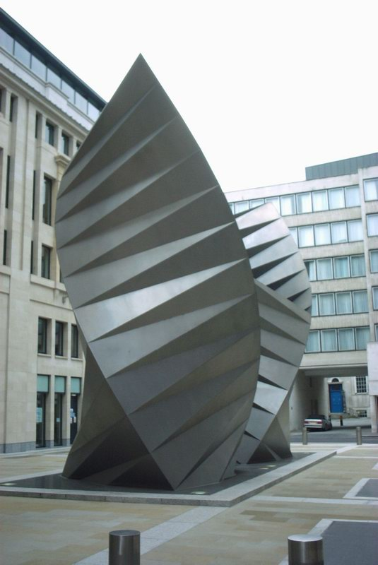 Sculpture Angel's Wings, Bishops Court near Paternoster Square, just north of St. Paul's in London/UK.